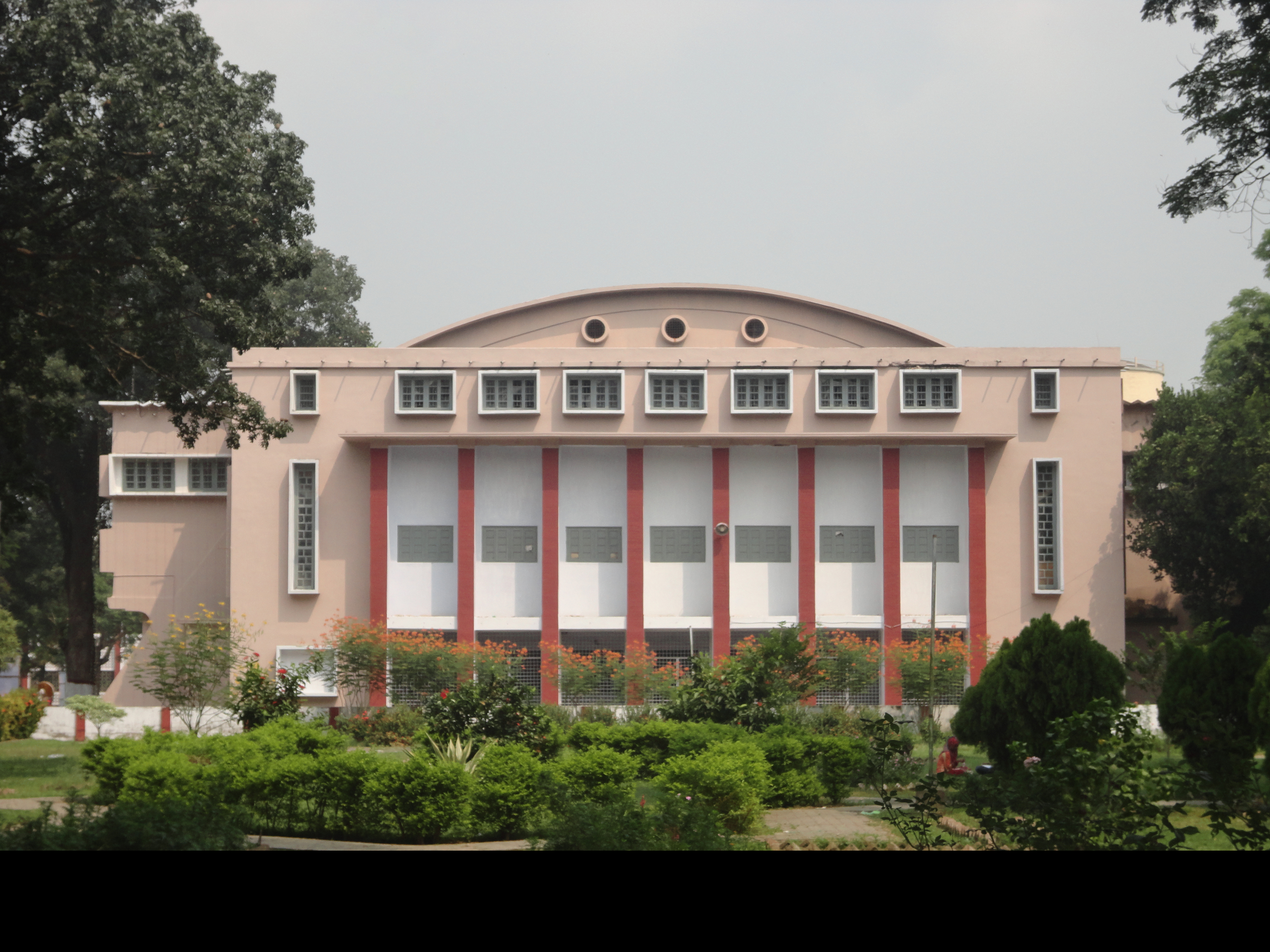 Kazi Nazrul Islam Auditorium during 10th Convocation of University of Rajshahi